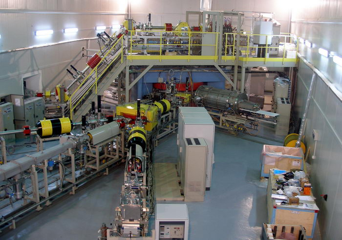 The main hall of DC-60 heavy ion accelerator complex.